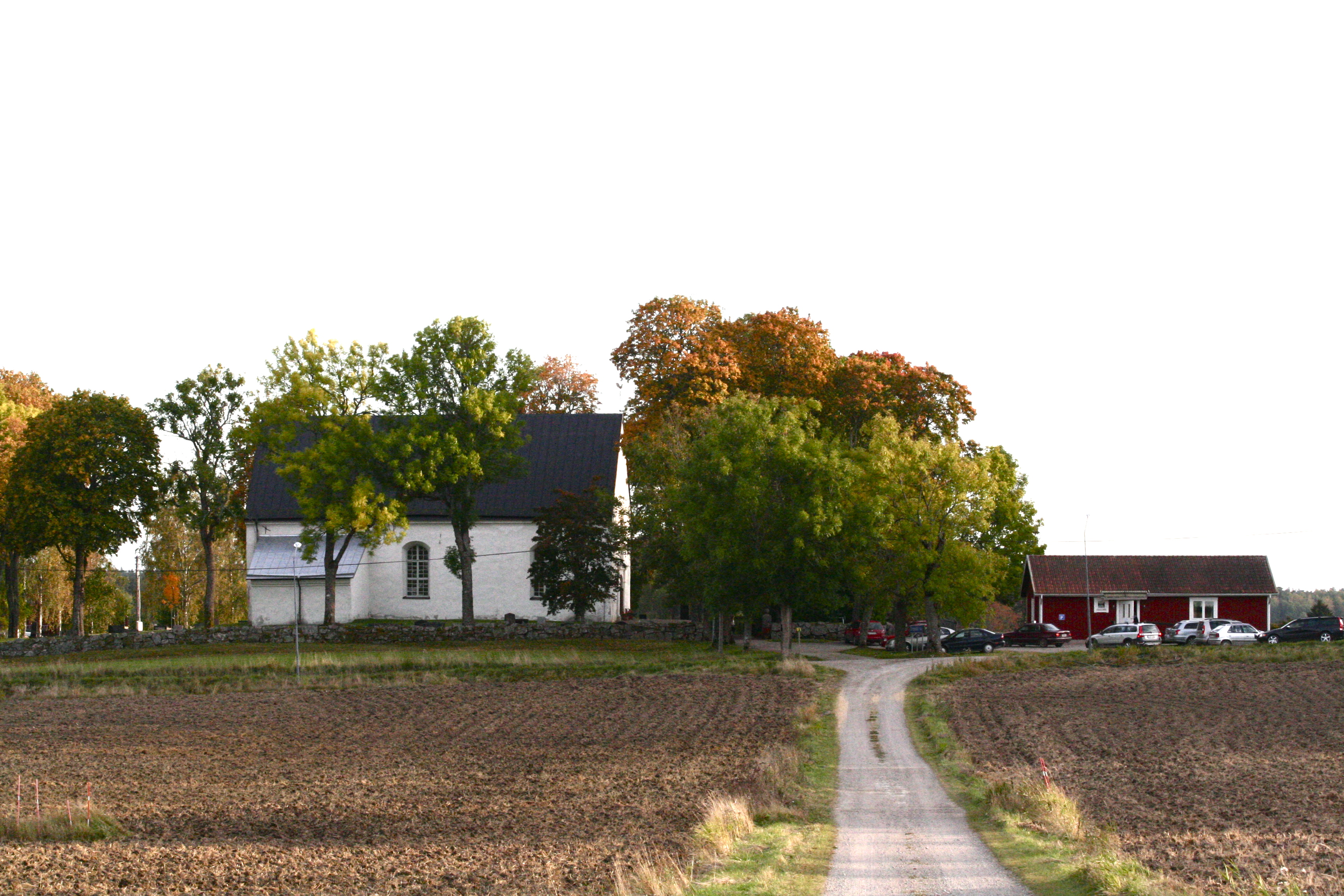 Österunda church exterior from north.